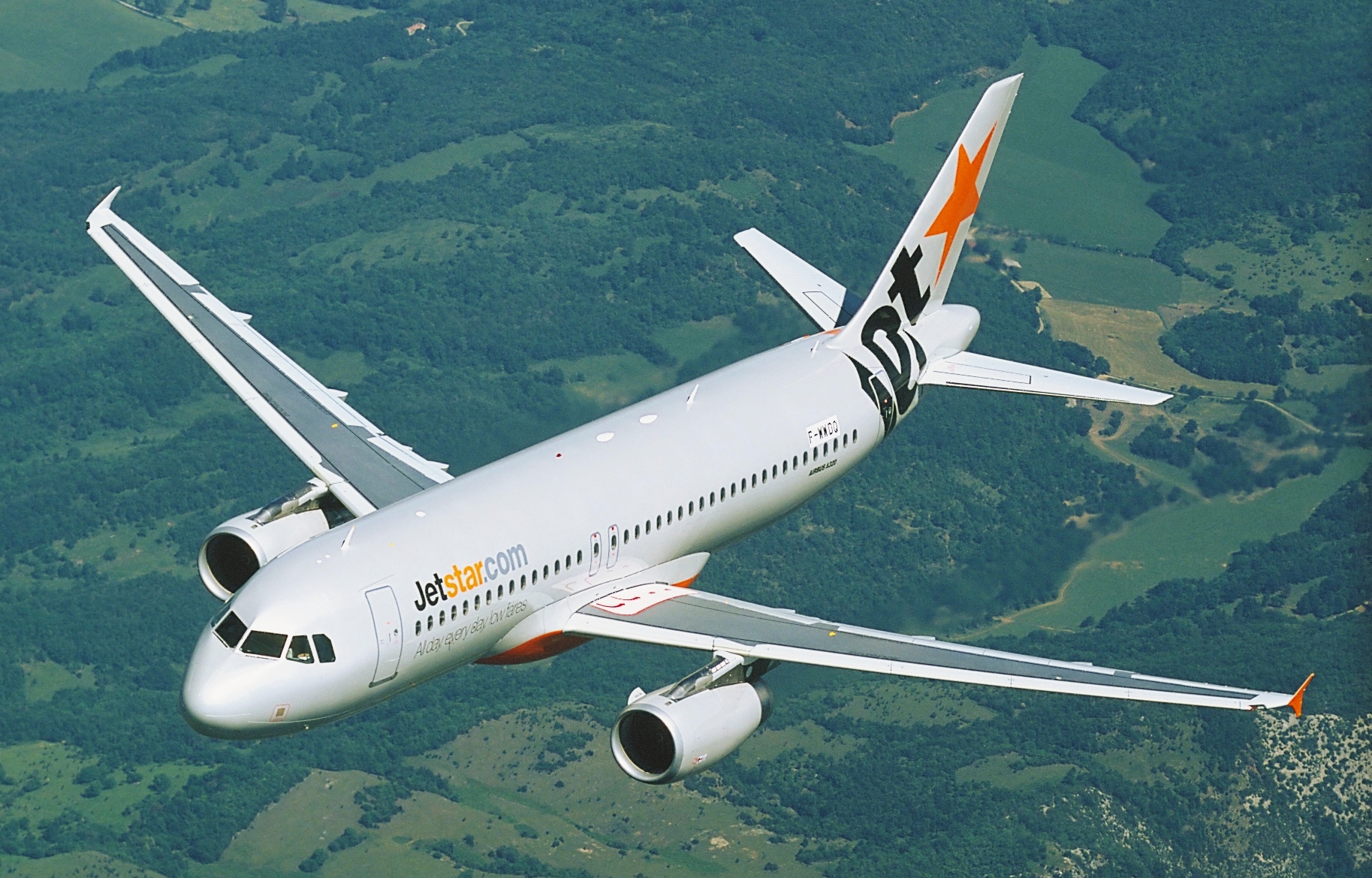 An Airbus A320-200 of Jetstar inflight over France